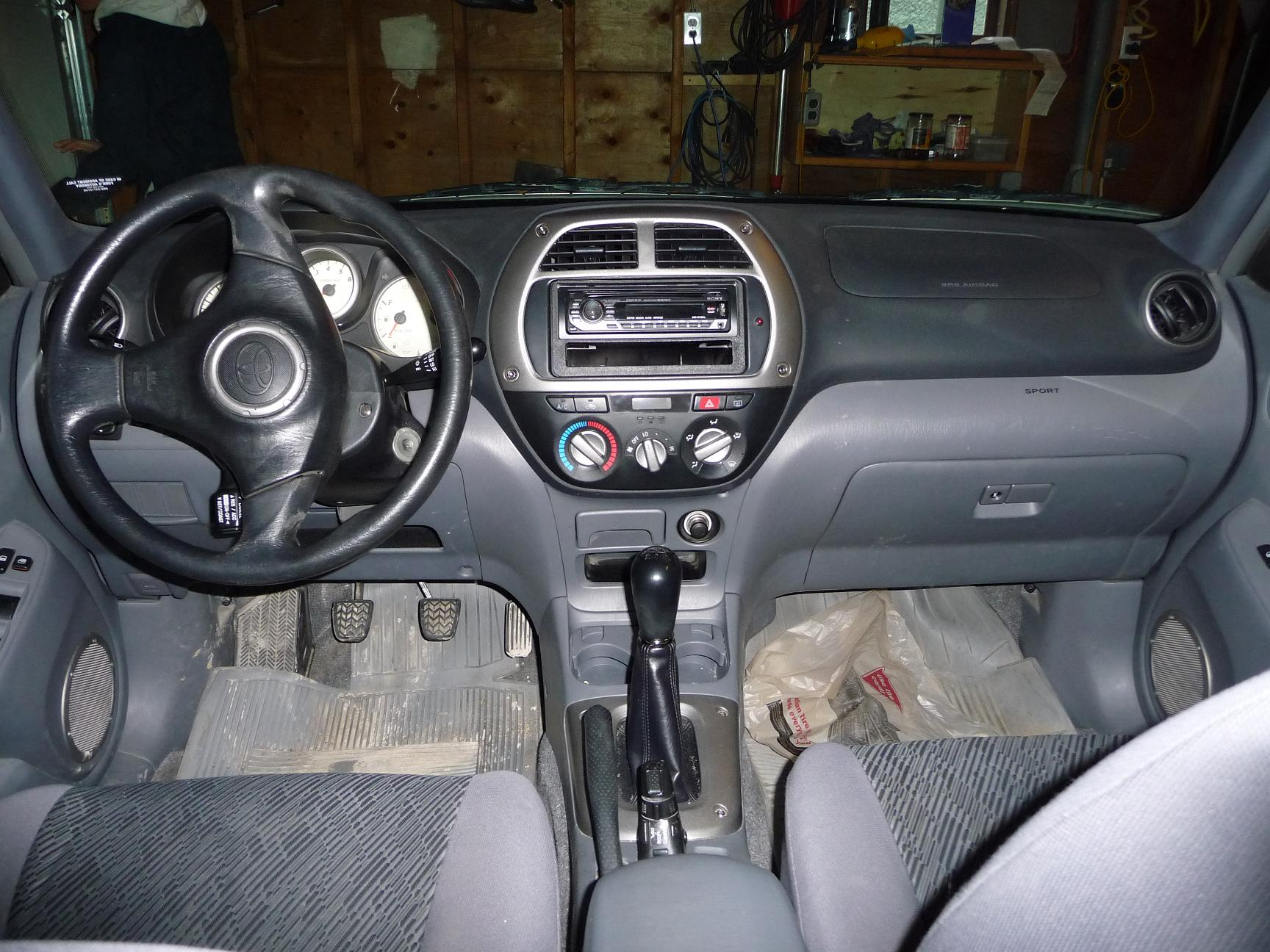 2001 RAV4 Interior